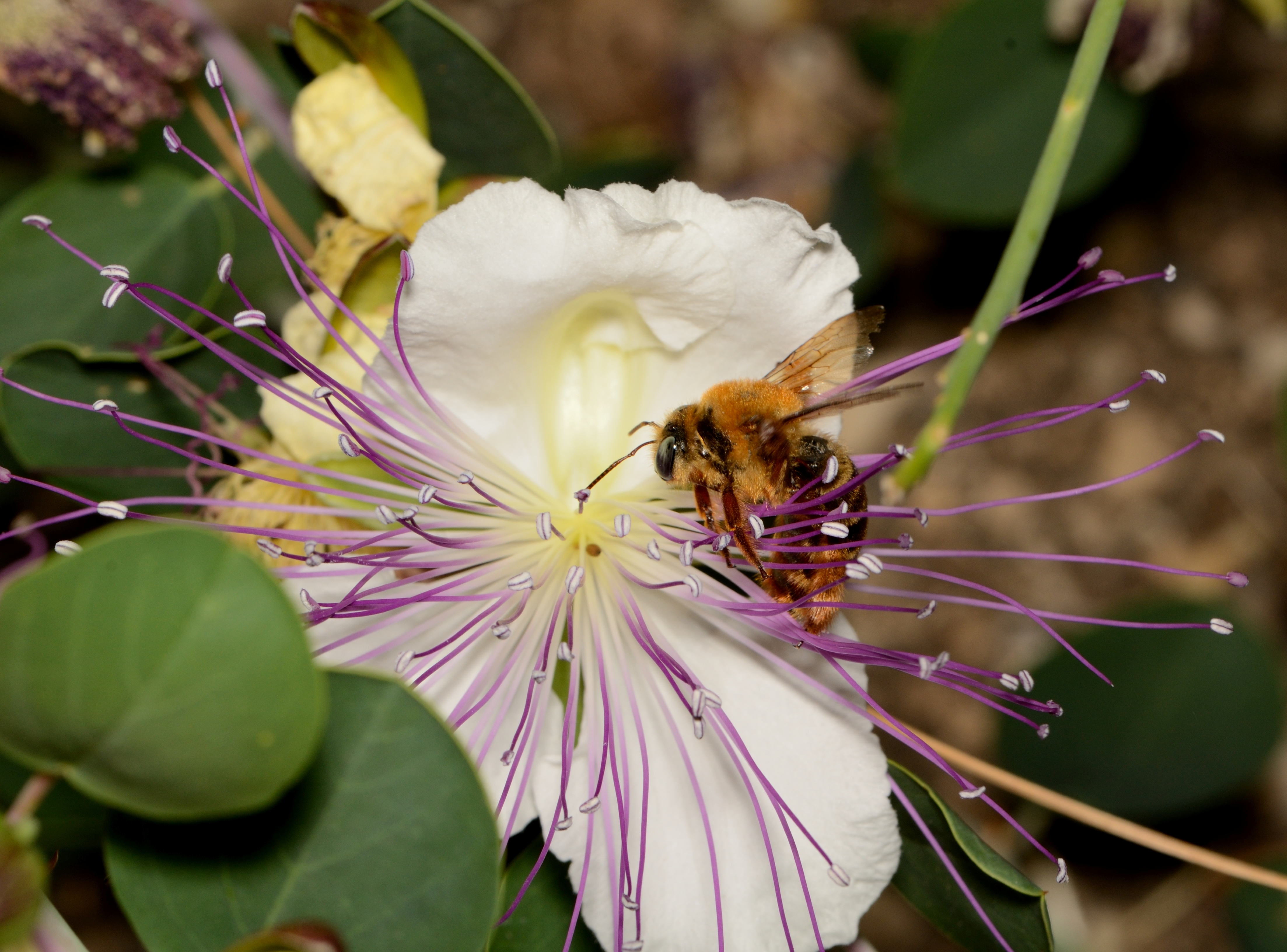 Xylocopa olivieri, female foraging on Capparis zoharyi, Mount Meron, Upper Galilee, Israel, June 22, 2012.